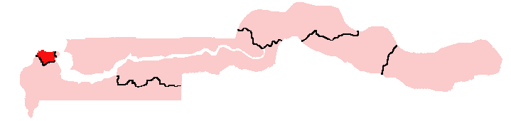 Map of The Gambia showing the Kanifing Local Government Area; created with the GIMP. Made by User:Acntx